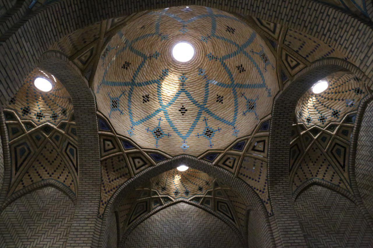 بازار بزرگ سنتی ابهر